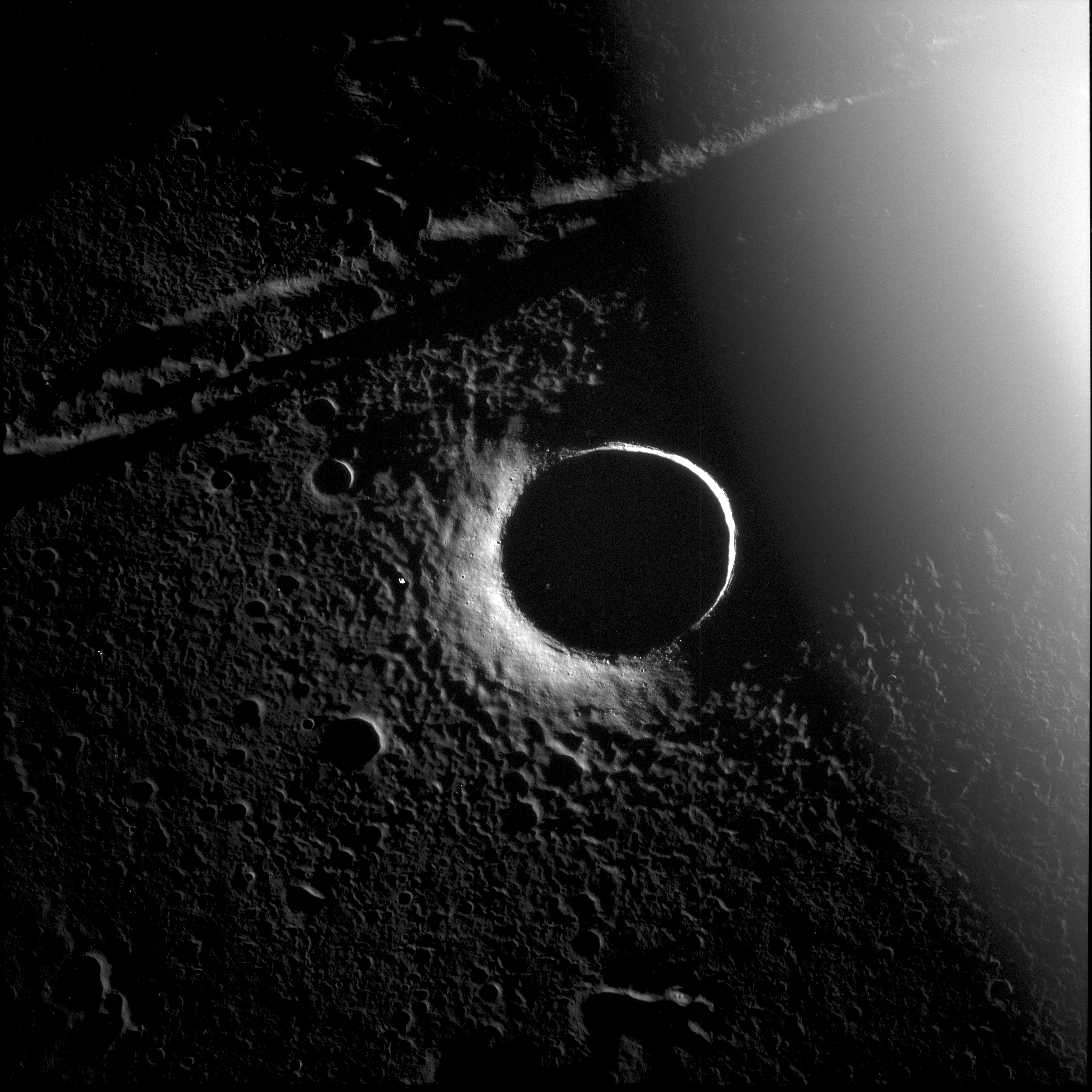 Moltke crater and Rima Hypatia just after local sunrise. Apollo-11 image AS11-42-6326.